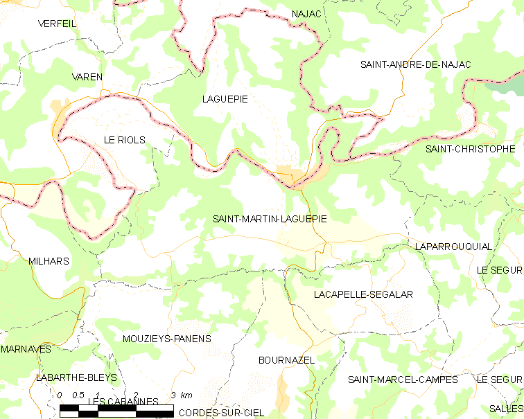 Map of French municipality Saint-Martin-Laguépie